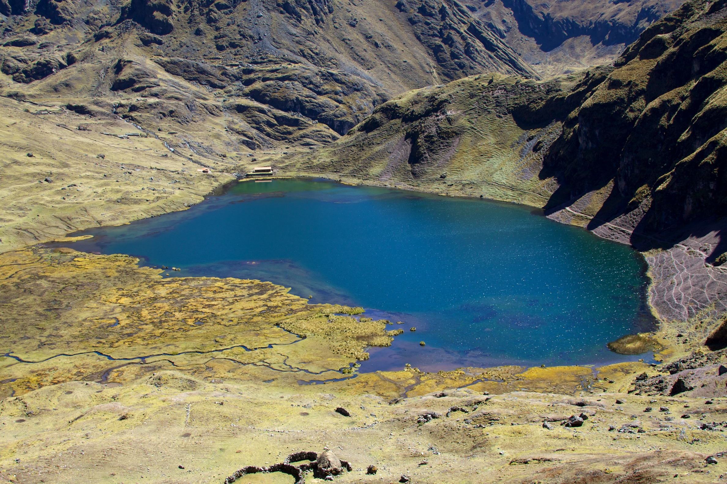 Each deep blue alpine lake seemed more beautiful than the last, this one having a new and modern resort coming up on one side. Pretty remote. I'd assume it is for package-tour trekkers and you can't beat their view, but it is pretty far from anywhere.